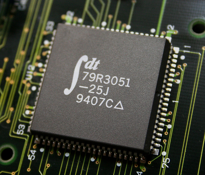 IDT79R3051 MPU made by IDT on Seta arcade game PCB(SUPER REAL MAHJONG P5).